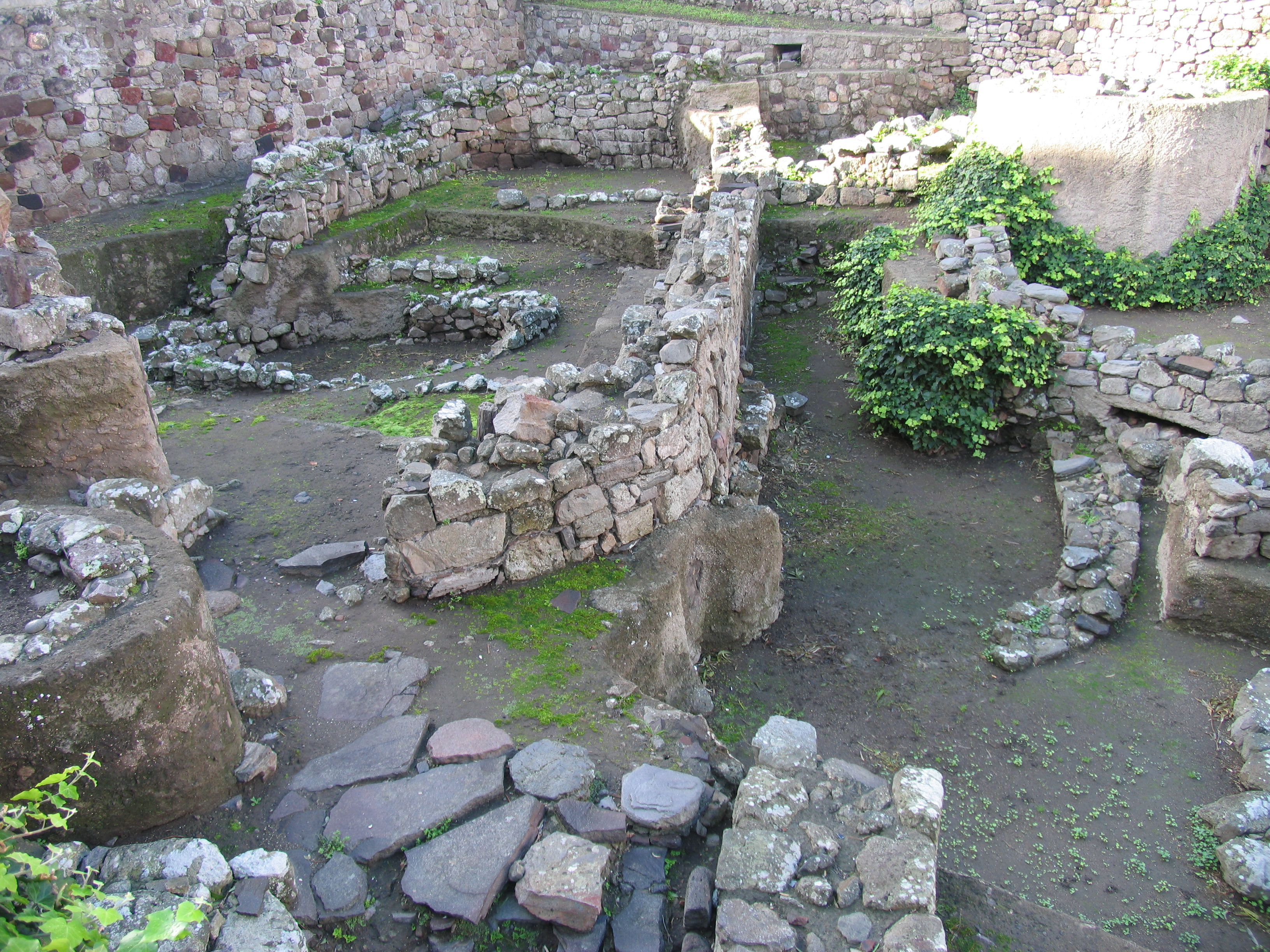 Prehistoric village ruines on Lipari castle, Eolian islands, Sicily, Italy